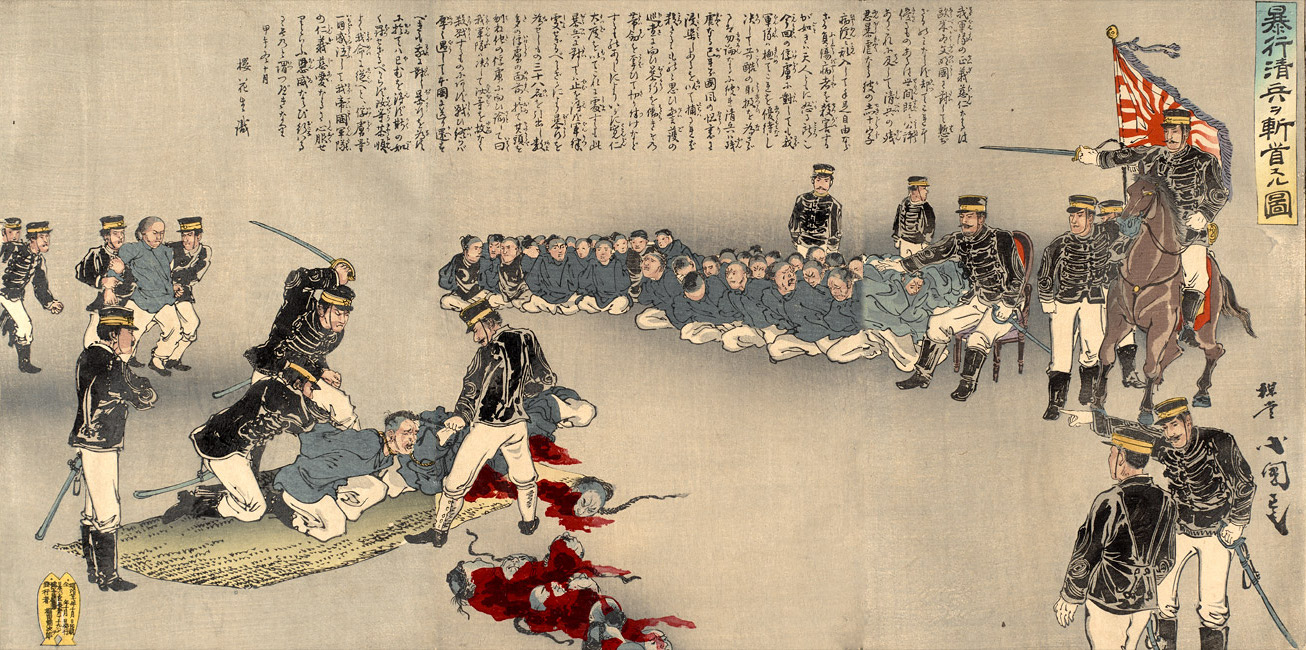 “Illustration of the Decapitation of Violent Chinese Soldiers” by Utagawa Kokunimasa Japanese soldiers educating other Chinese captives not to commit violence by beheading 38 Chinese soldiers who committed acts of assault on a Red Cross hospital and killing injured and ailing person in the 1st Sino-Japanese War